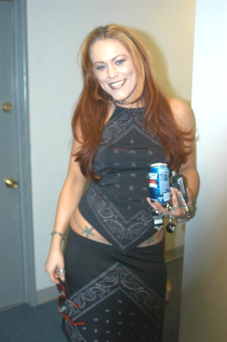 Charlotte Lee at Talent Call World Modeling Agency, Nov 4, 2004